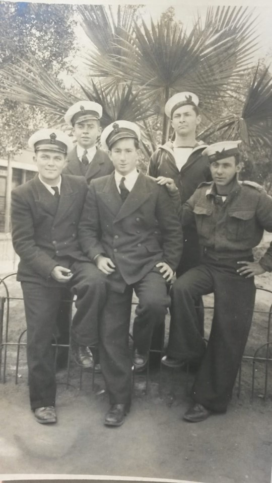 Yehoshua Lahav Shniedmesser Estate Royal Navy Volunteers Reseves from Hagana Ismailia Egypt Center Yehoshua Lahav Shnidemesser. Courtesy of his daughter Dalia Jones